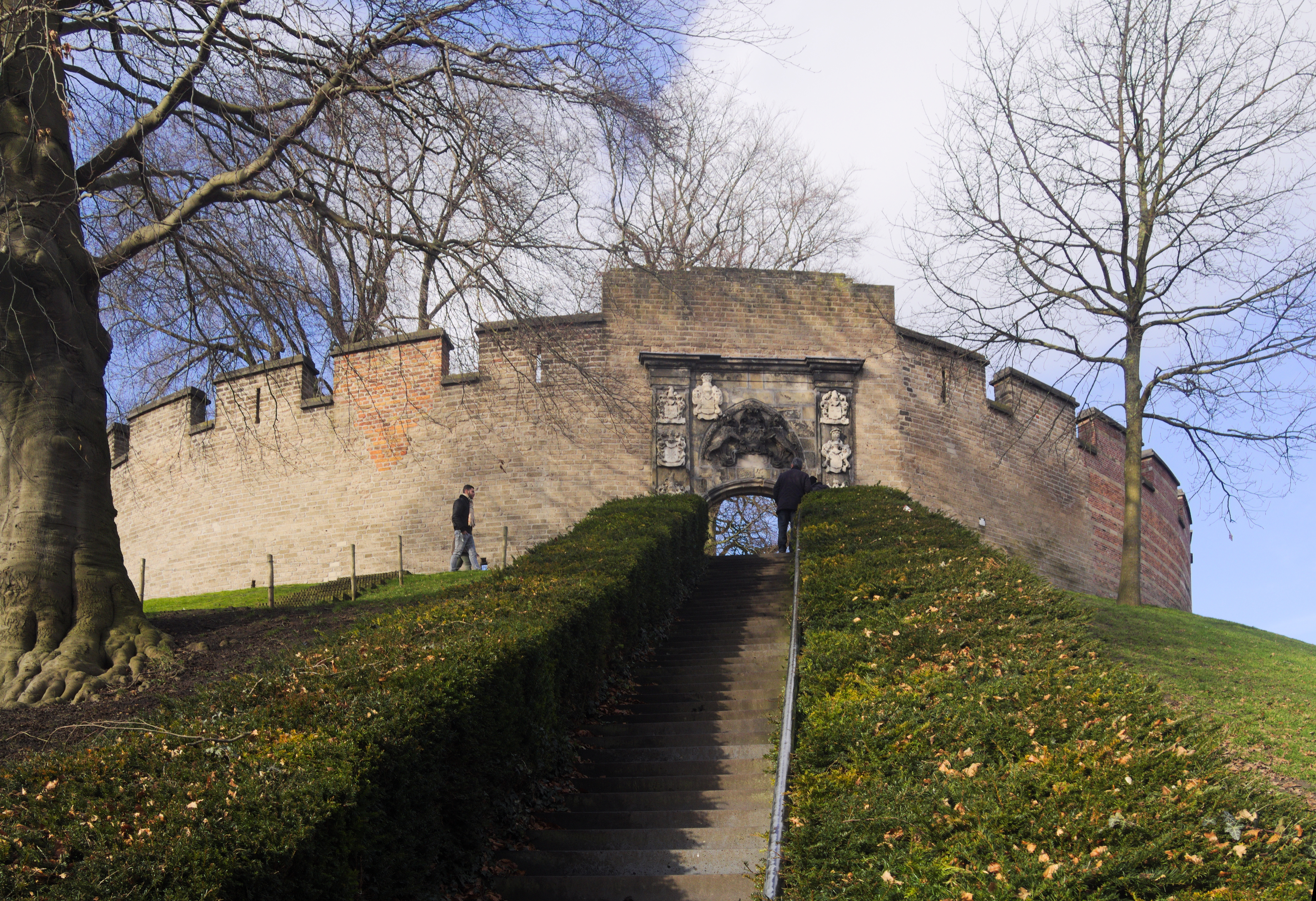 The staircase leading to Leiden fortress.